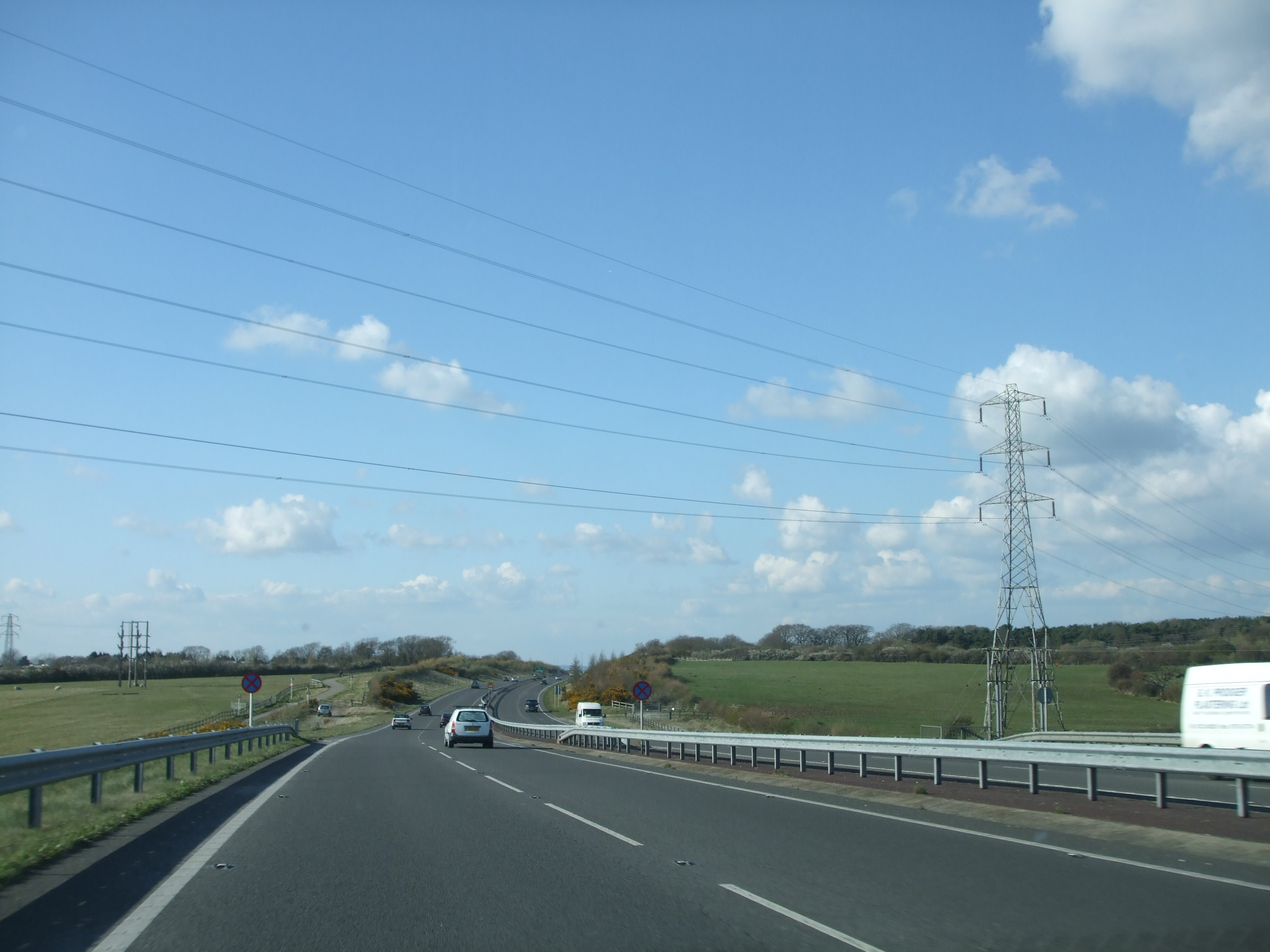 A view of part of the A22 road near Eastbourne, UK.